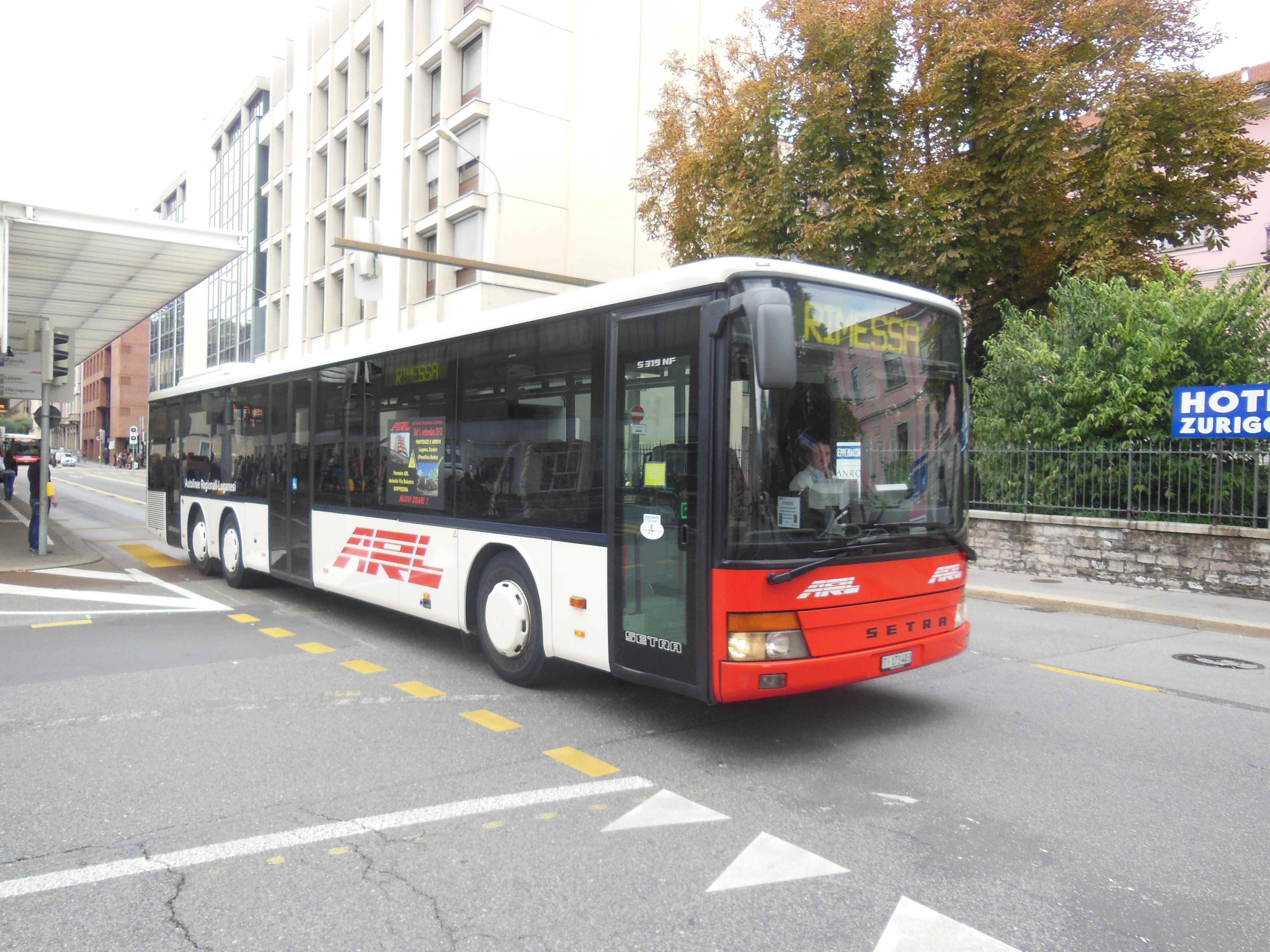 A bus of the Autolinee Regionali Luganesi (ARL) in Lugano. For more information, see wikipedia article Autolinee Regionali Luganesi.